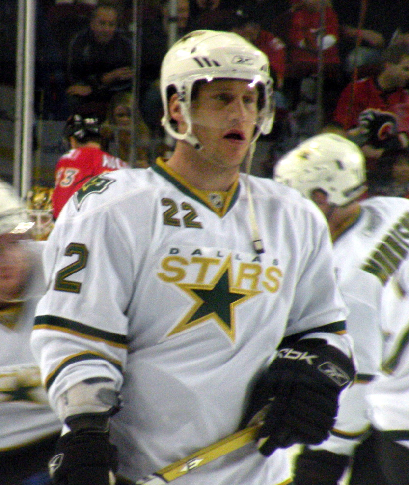 Dallas Stars forward Landon Wilson during warm-up prior to a National Hockey League game against the Calgary Flames, in Calgary.